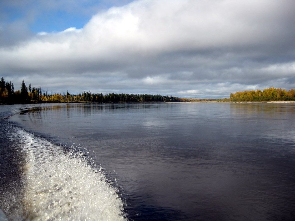 Sym River. At the crossing